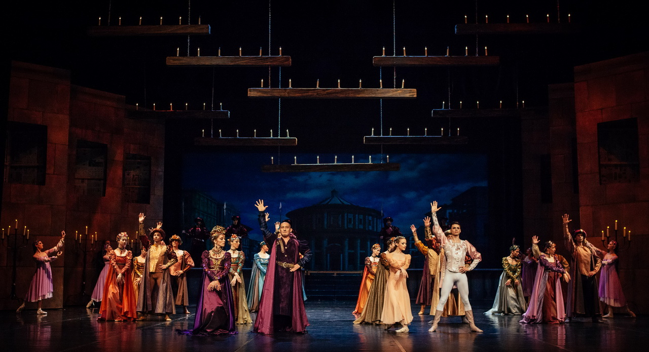 "Romeo and Juliet ", a ballet by Sergei Prokofiev based on William Shakespeare's play Romeo and Juliet; choreography and directing Konstantin Kostjukov; Ballet of the Serbian National Theatre, Novi Sad, 2013/14, ensemble Srpski (latinica): „Romeo i Julija” balet Sergeja Prokofijeva po istoimenom Šekspirovom komadu; Balet Srpskog Narodnog pozorišta, Novi Sad, 2013/14, ansambl Српски (ћирилица): Балет „Ромео и Јулија“ Сергеја Прокофијева по истоименом Шекспировом комаду; Балет Српског Народног позоришта, Нови Сад, 2013/14, ансамбл